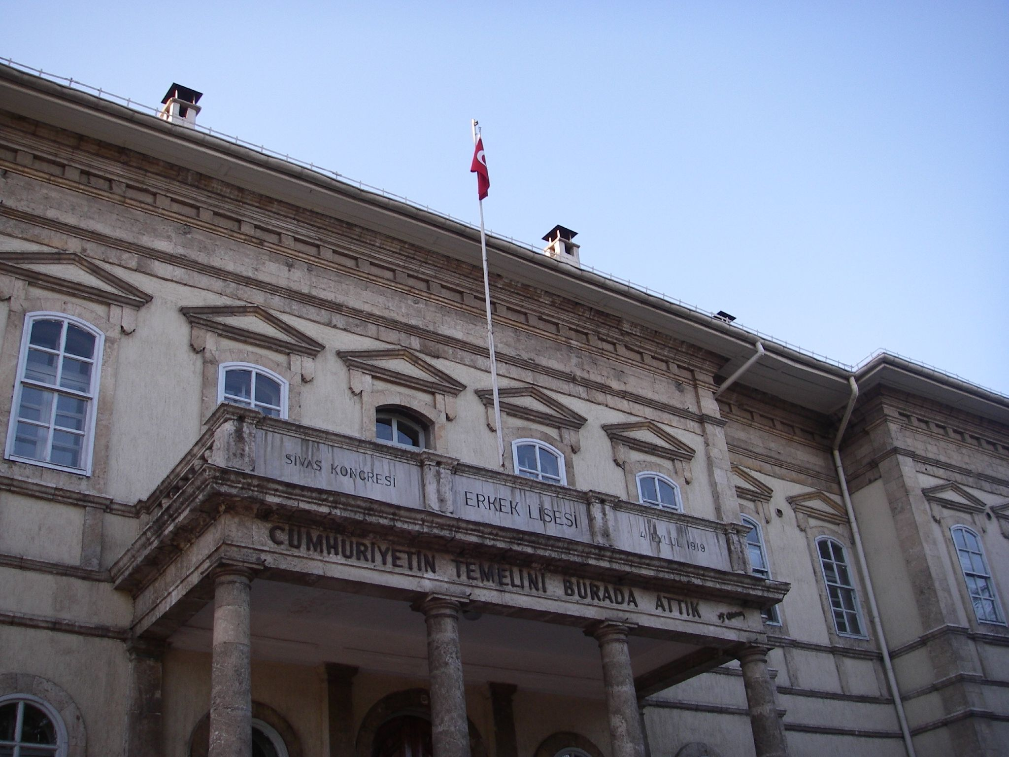 the school where the Sivas Congress was hold.Sivas